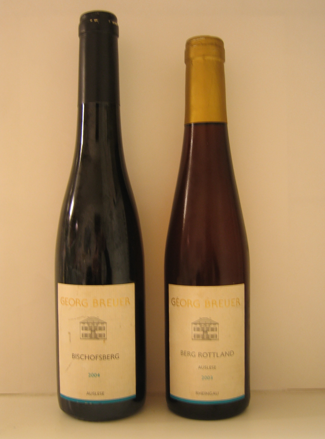 A bottle of Riesling Auslese and a bottle of Riesling Auslese Goldkapsel (Gold Capsule) from the same producer, Weingut Georg Breuer in Rüdesheim, Rheingau, Germany